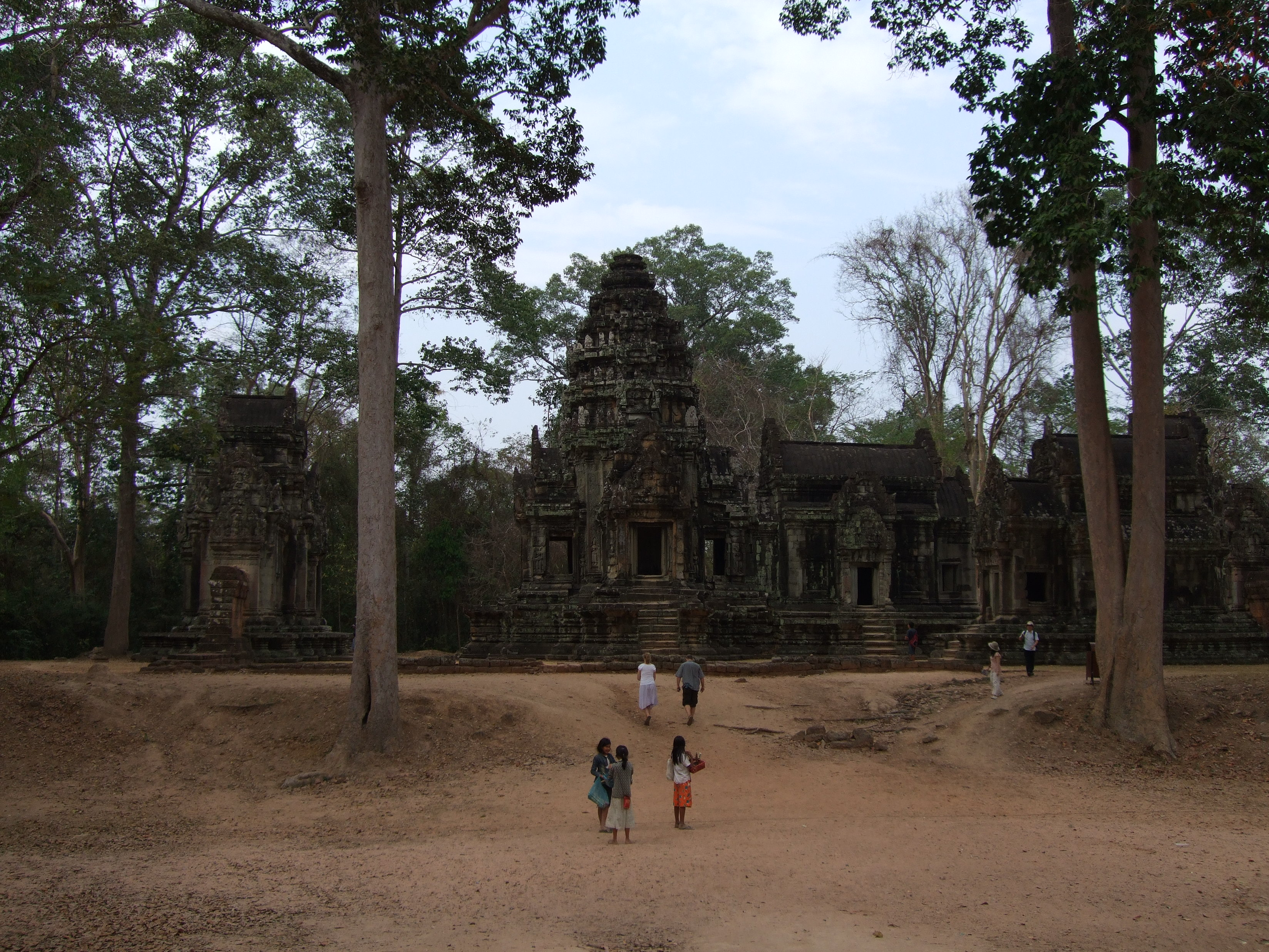 The Thommanon temple in Angkor, Cambodia